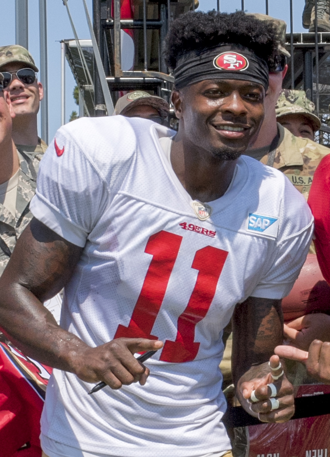 49ers players Marquise Goodwin, wide receiver, and Richard Sherman, cornerback, pose with a group of military members at the SAP Performance Facility, Santa Clara, Calif., Aug. 12, 2018. The 49ers organization invited military members from the local area to observe their training camp during a military appreciation day.